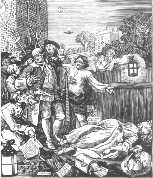 Woodcut of Hogarth's Cruelty in Perfection